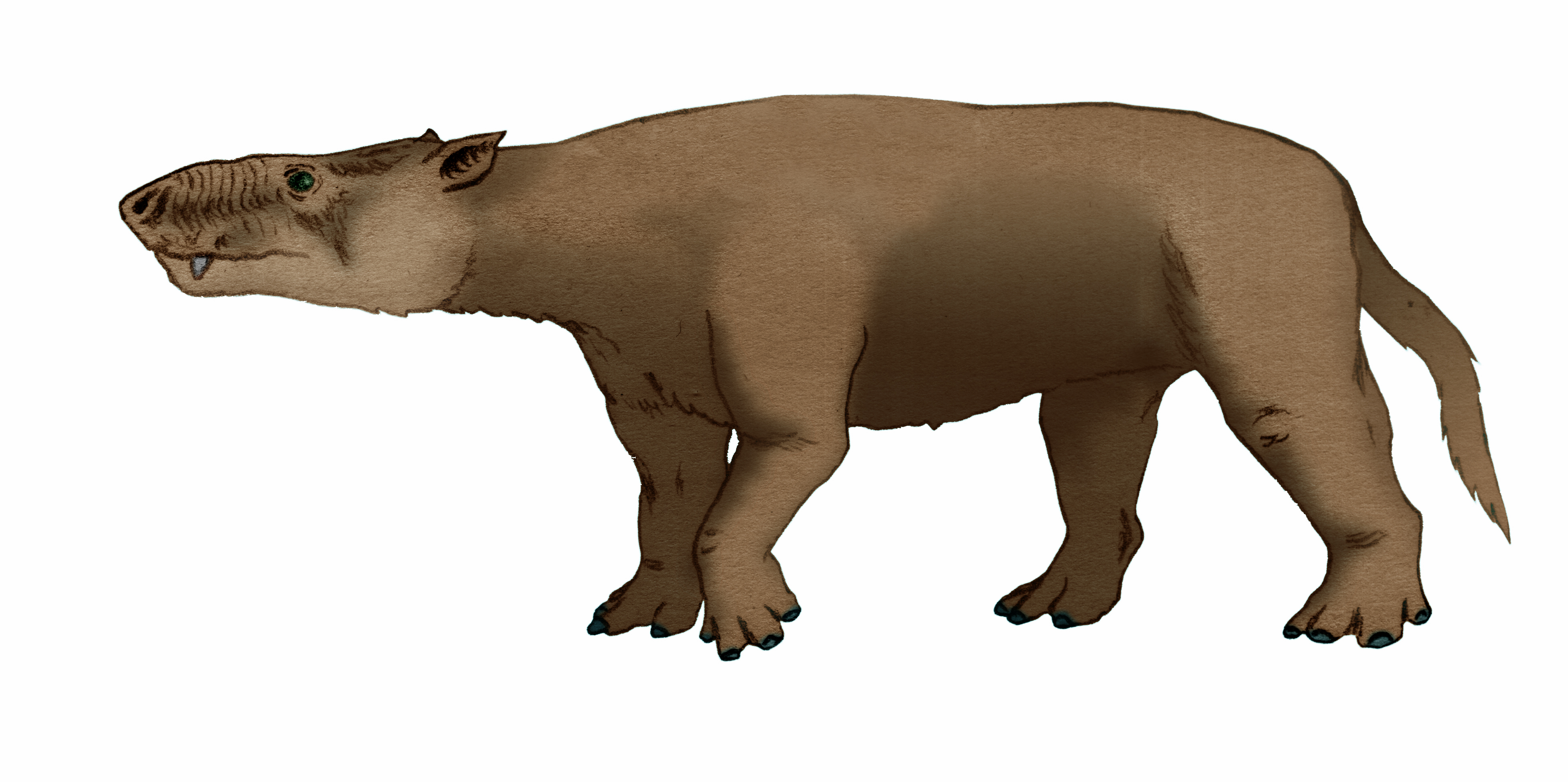 Restoration of Trigonostylops, an extinct mammal